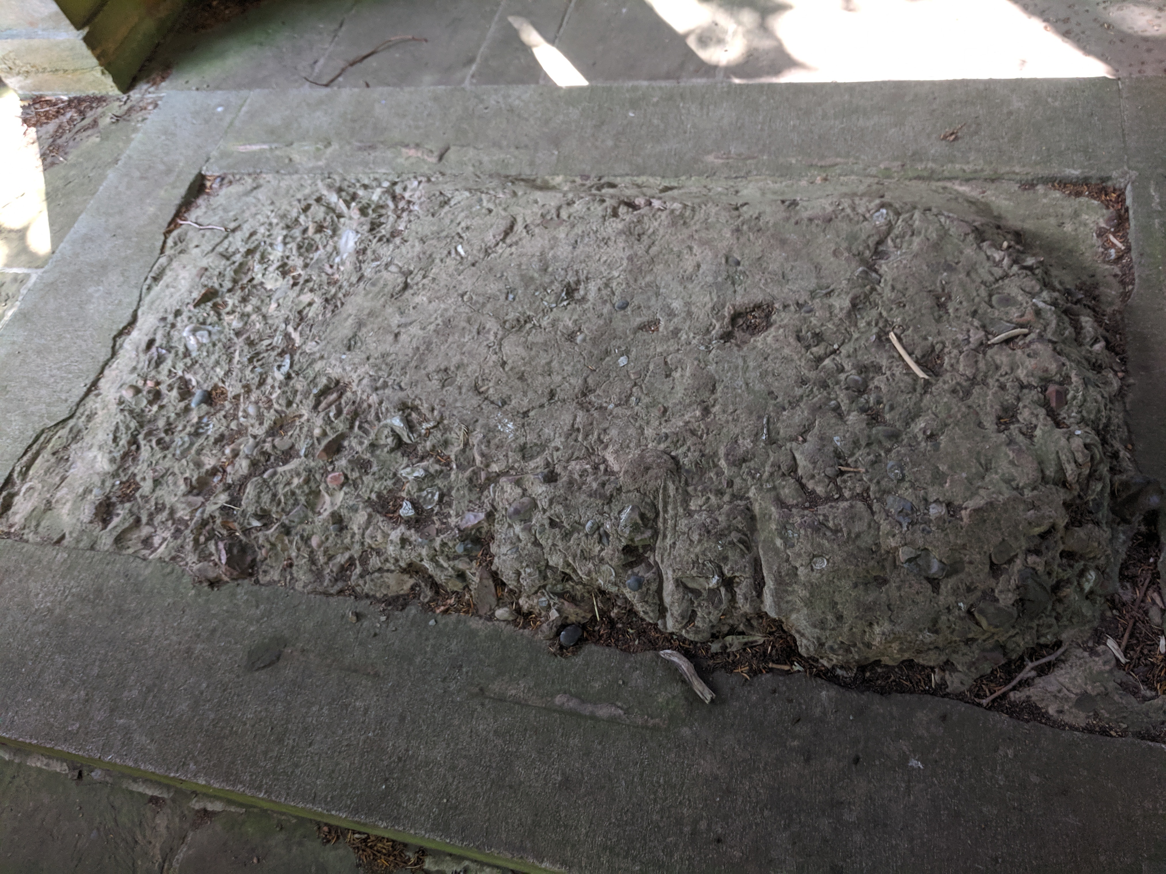 Chiselled away sculpture